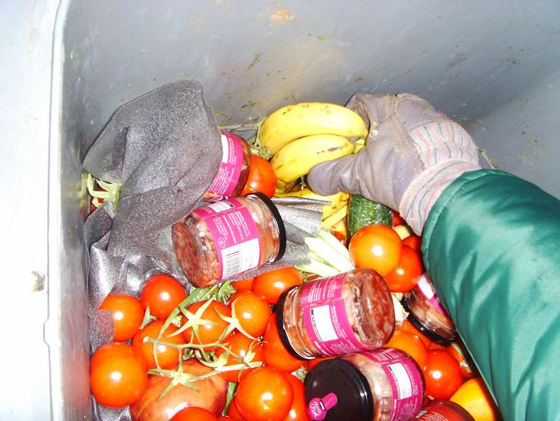 Dumpster diving in Stockholm, Sweden